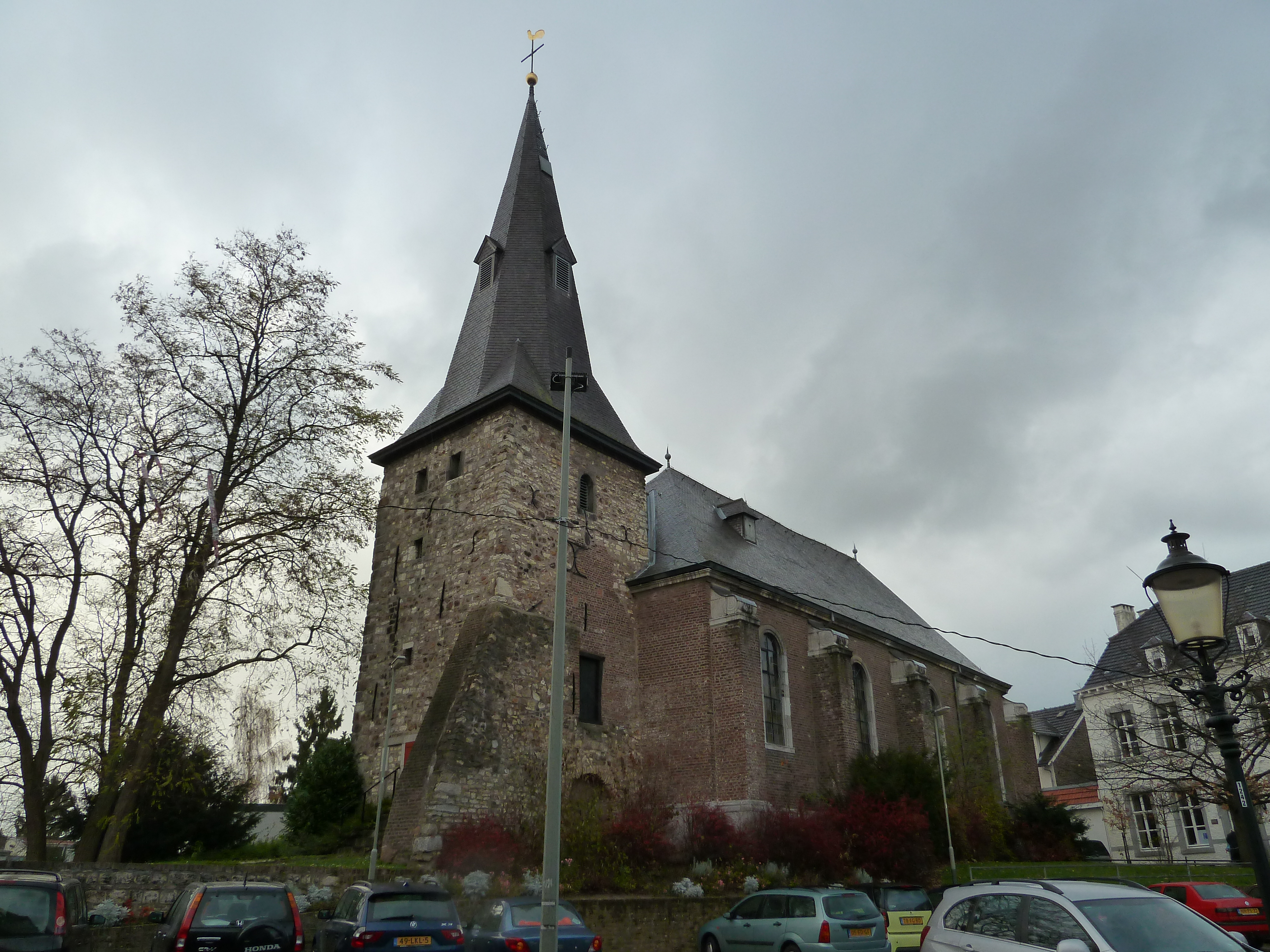 Hervormde kerk, Vaals, Limburg, the Netherlands